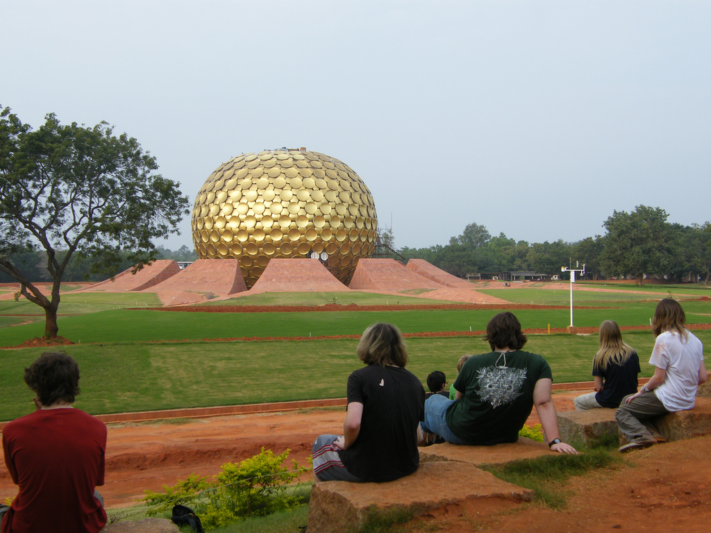 Auroville in villupuram district,tamilnadu, India